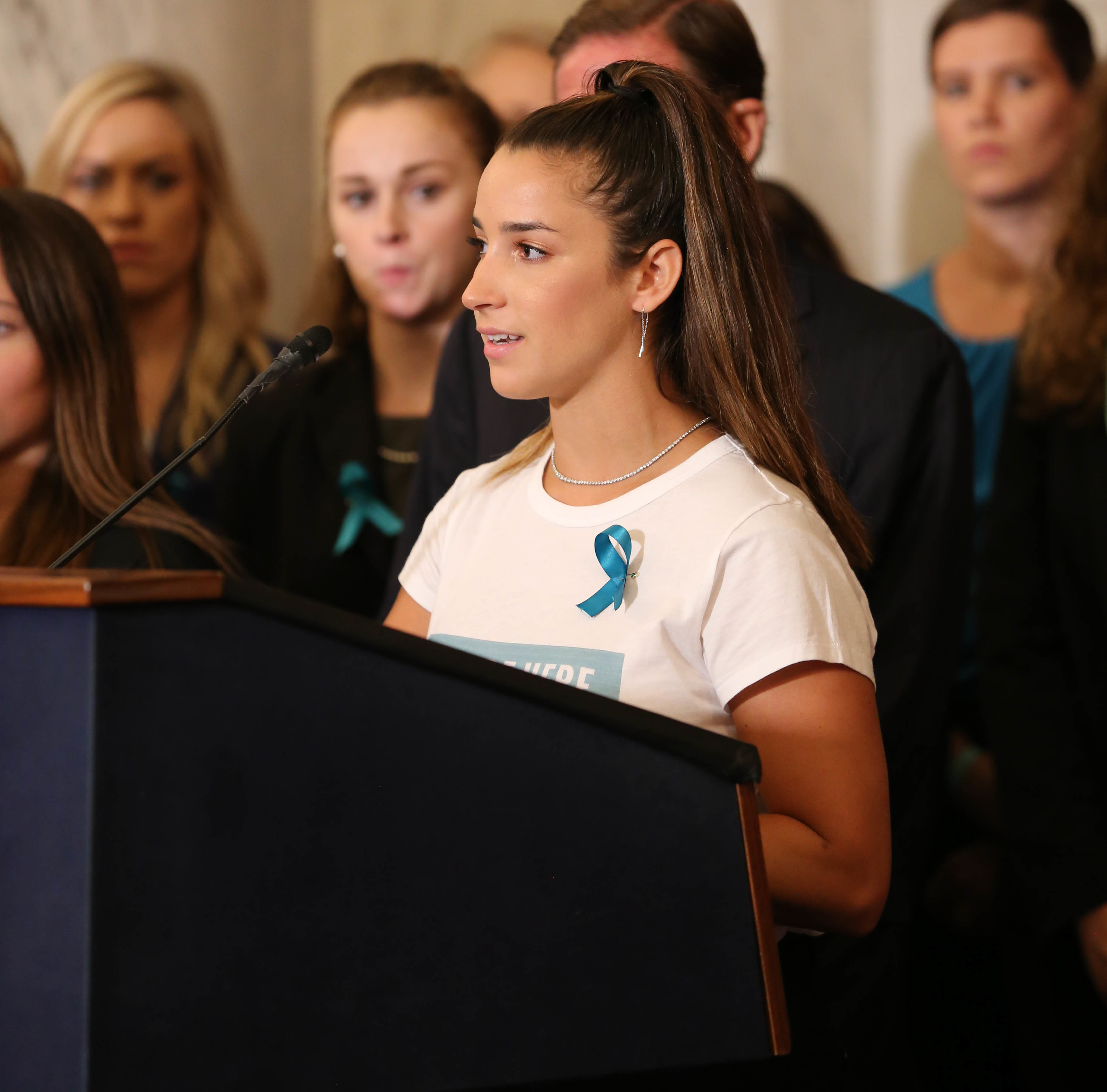 USAGA_survivors_zoomlens_072418 (8 of 14)